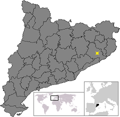 Location of Sils, in Catalonia